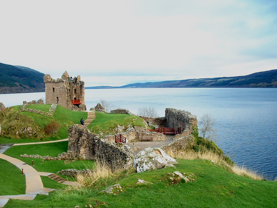 Photo taken by Lukacs in 2004.